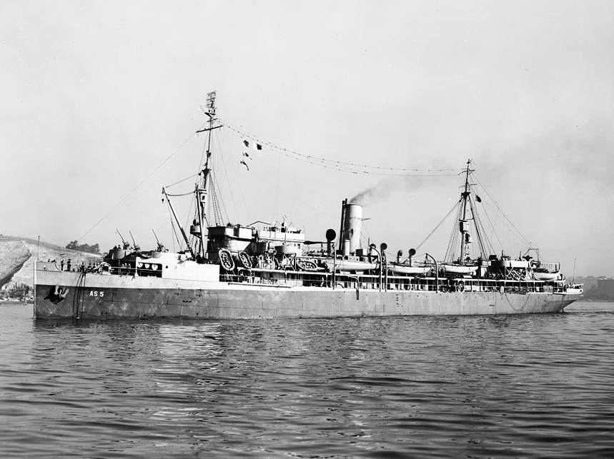 The U.S. Navy submarine tender USS Beaver (AS-5) off the Mare Island Naval Shipyard, California (USA), on 20 September 1943. Beaver was underway for duty in Alaska.